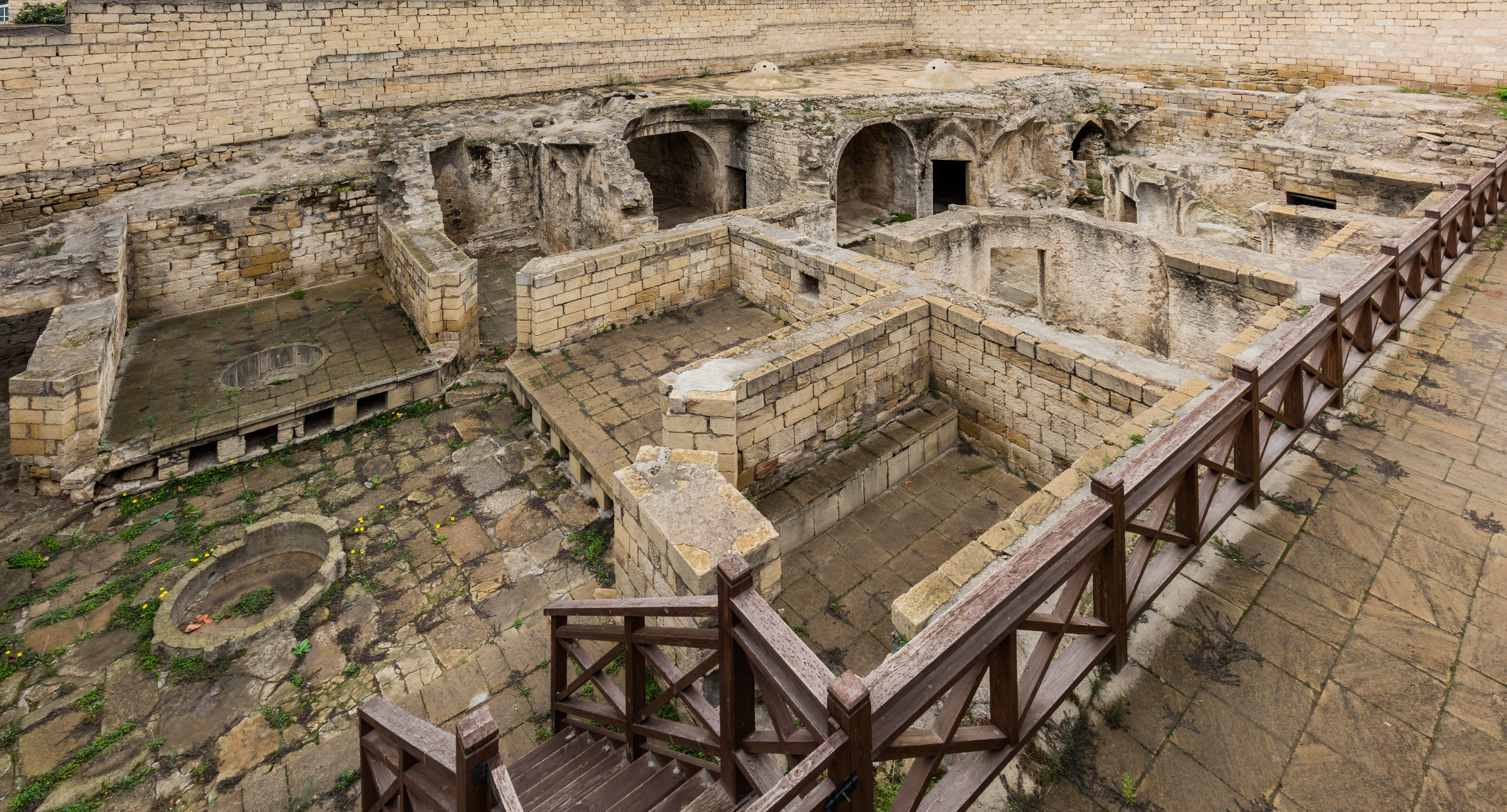 Palace of the Shirvanshahs, Baku, Azerbaijan